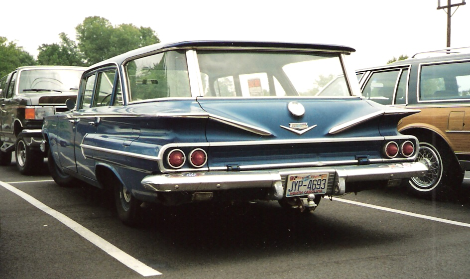 1960 Chevrolet Parkwood station wagon I photographed in Charlotte, North Carolina in June 1999.